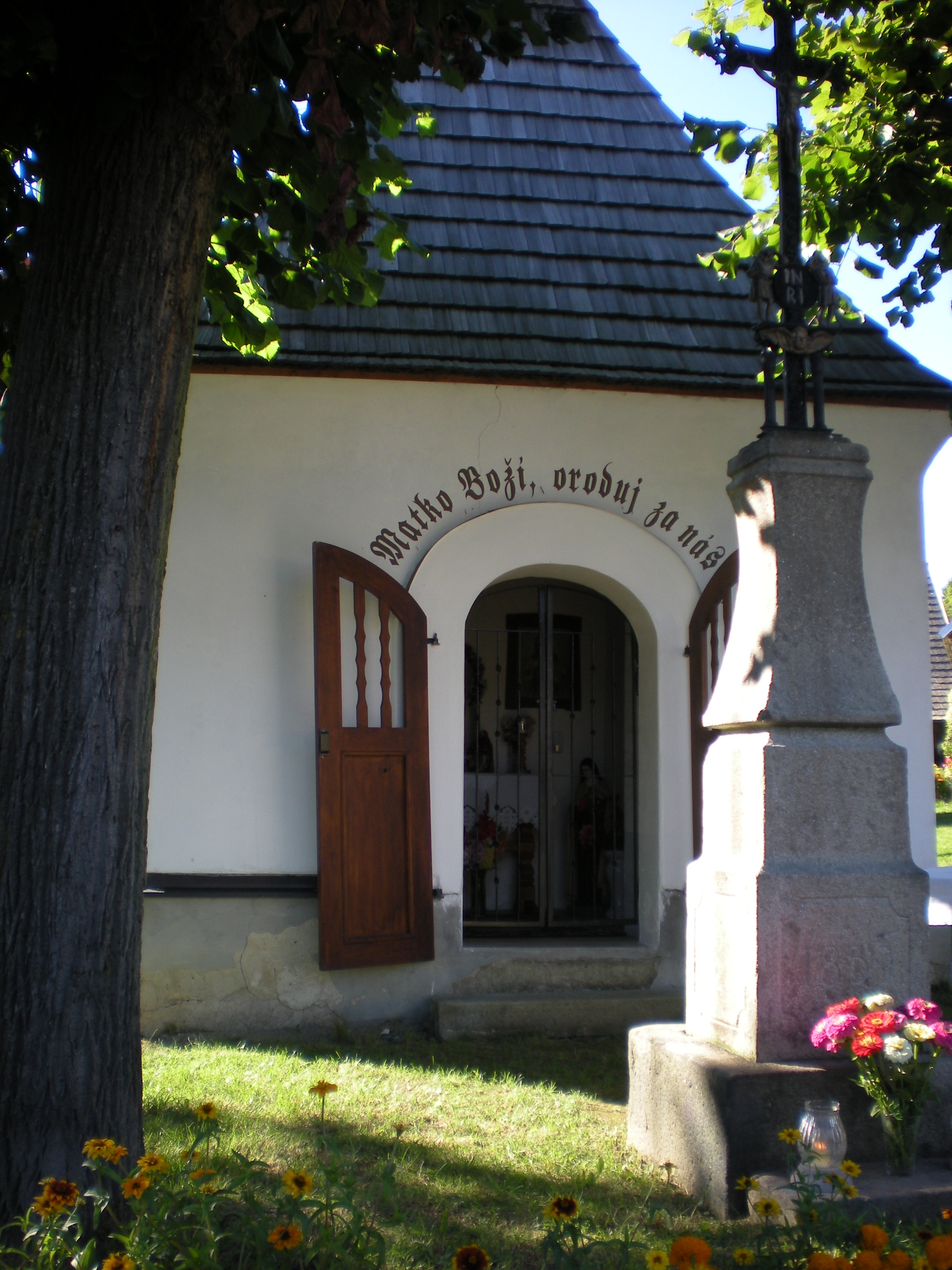 Chapel in Blažejovice.